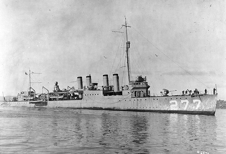 USS Moody (Destroyer # 277, later DD-277). Caption bar previously at top read: Photo # NH 45725 USS Moody in harbor, circa 1920-1922.